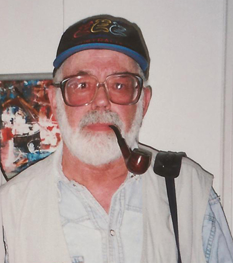 Dragan Žigić (1935–2009) at the Belgrade Book Fair in 2005.